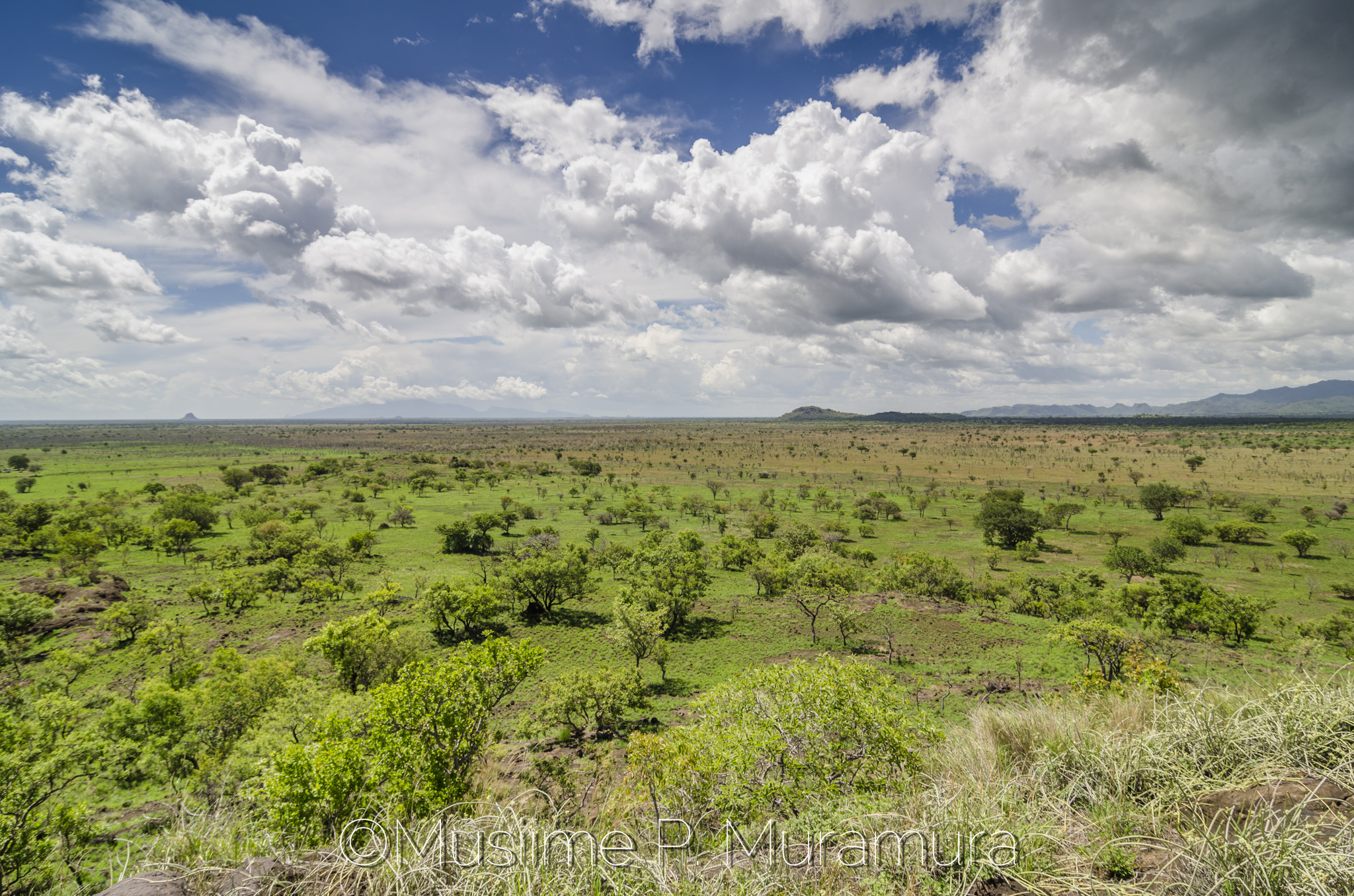 Viewed from the rock shelter